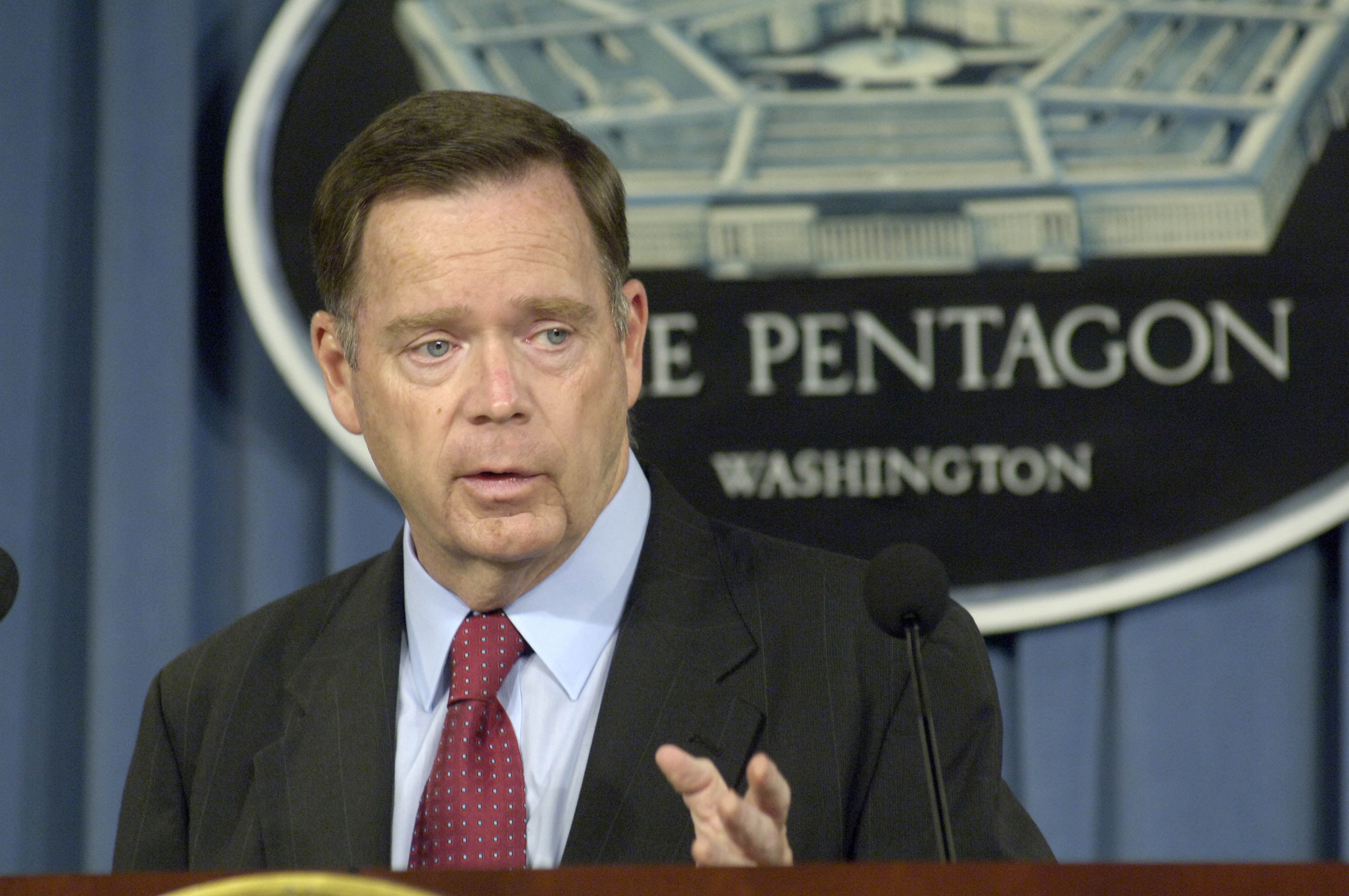 Assistant Secretary of Defense for Homeland Defense Paul McHale conducts a press briefing at the Pentagon to update reporters on the assistance being rendered by the DoD to the state of California in response to the devastating wildfires sweeping through the southern portion of that state on Oct. 23, 2007.